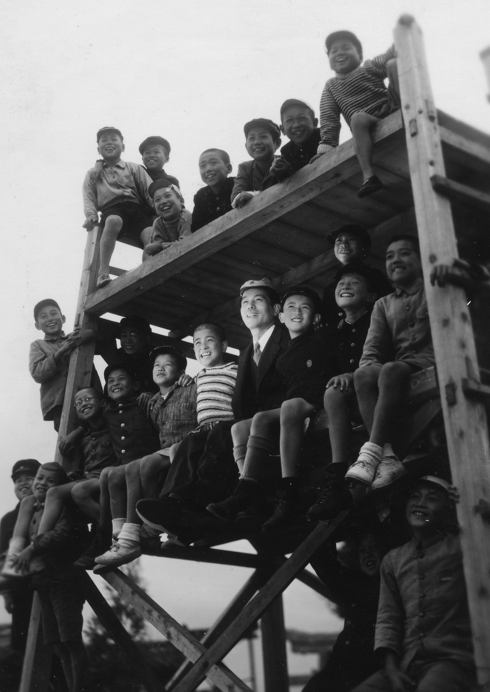 Chishū Ryū and children in Te o tsunagu kora (手をつなぐ子等) directed by Hiroshi Inagaki - 1948